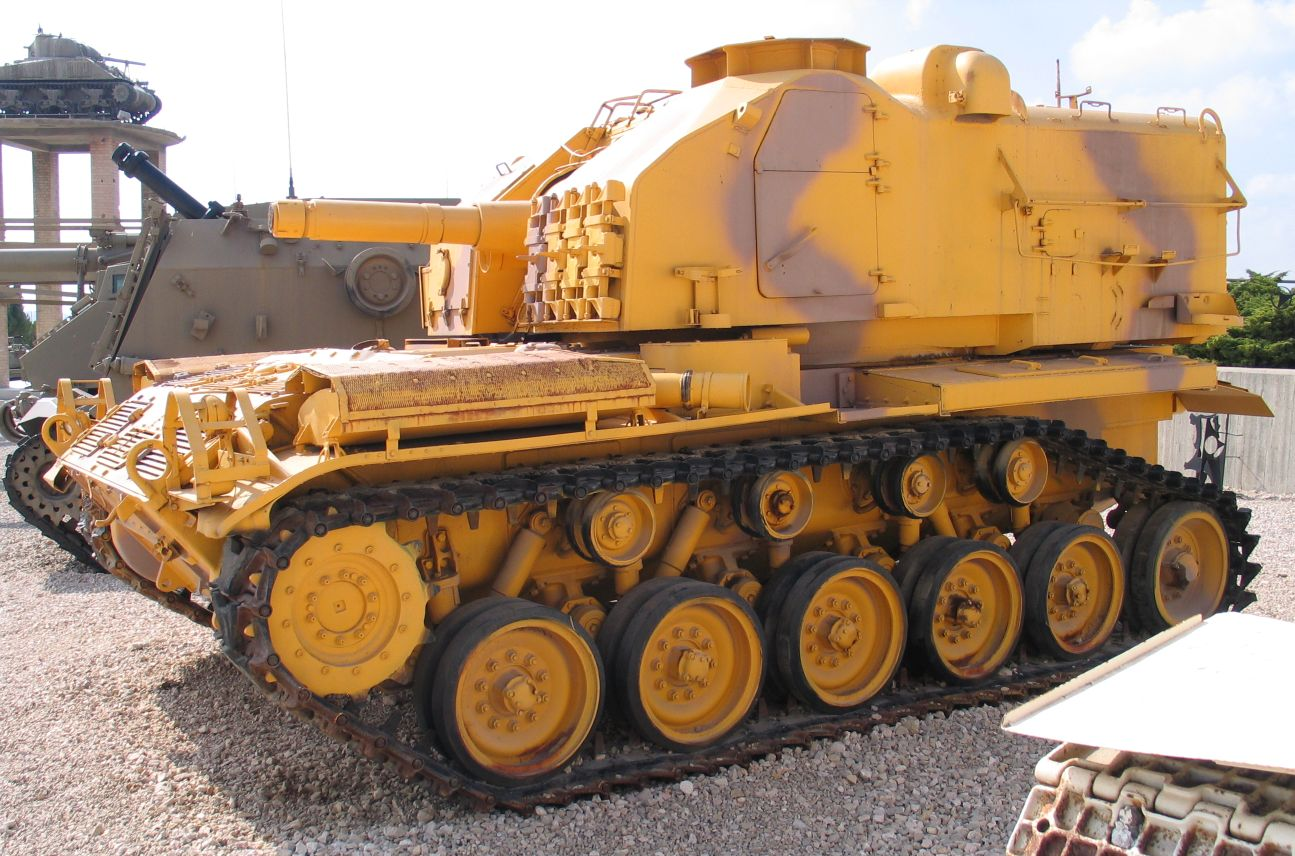 Description: US M52 105 mm self-propelled howitzer in Yad la-Shiryon Museum, Israel. 2005. Source: Photo by me, User:Bukvoed.